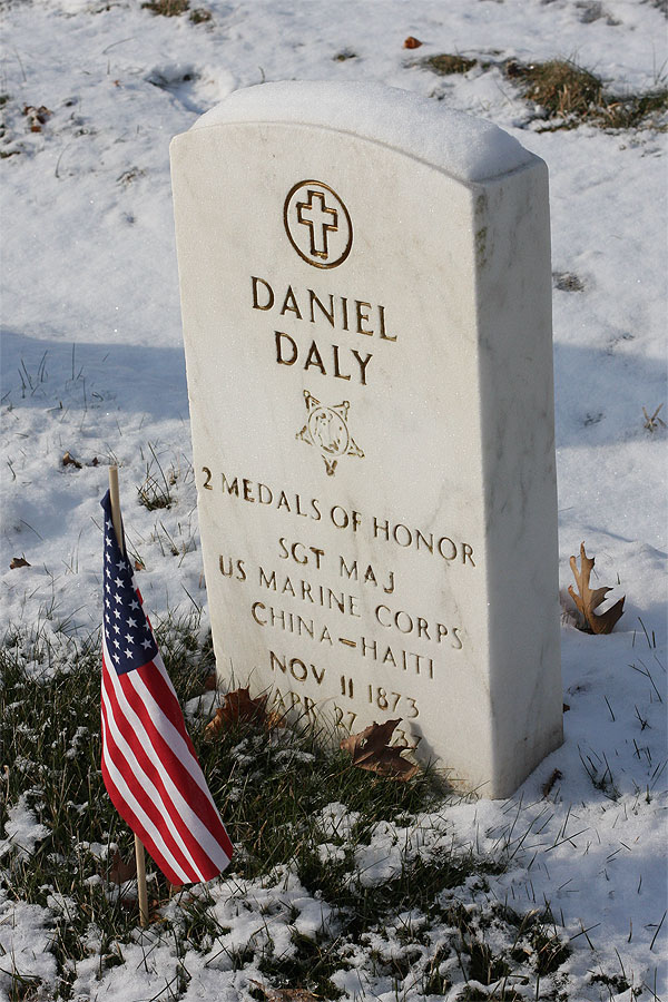 Grave of Daniel Daly, U.S. Medal of Honor winner, Cypress Hills National Cemetery, Brooklyn, New York. Photo by Kevin C. Fitzpatrick.